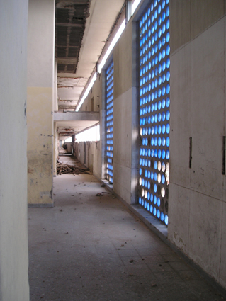 copyright Tobias Baccas 2006 author Tobias Baccas